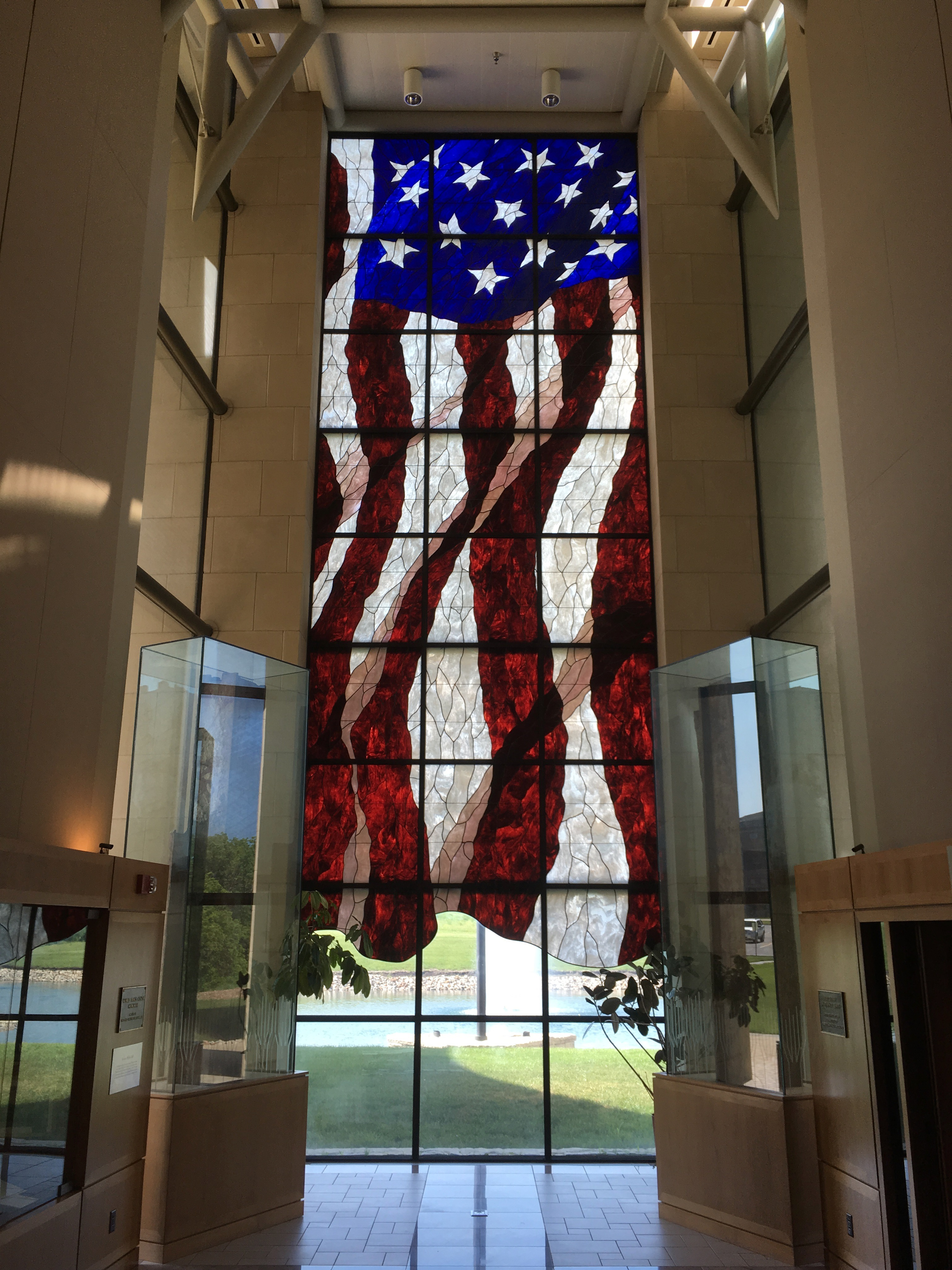 American Flag Window at the Dole Institute of Politics.